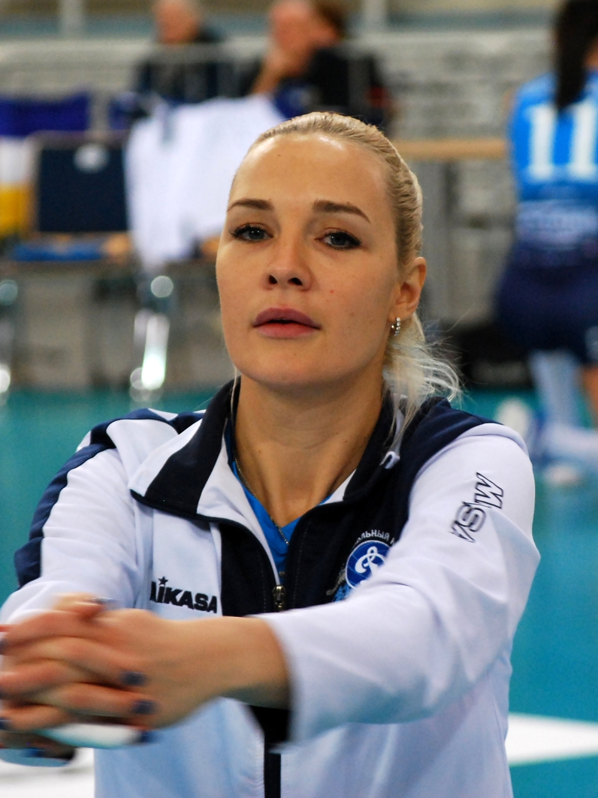 Yulia Morozova, volleyball player from Russia